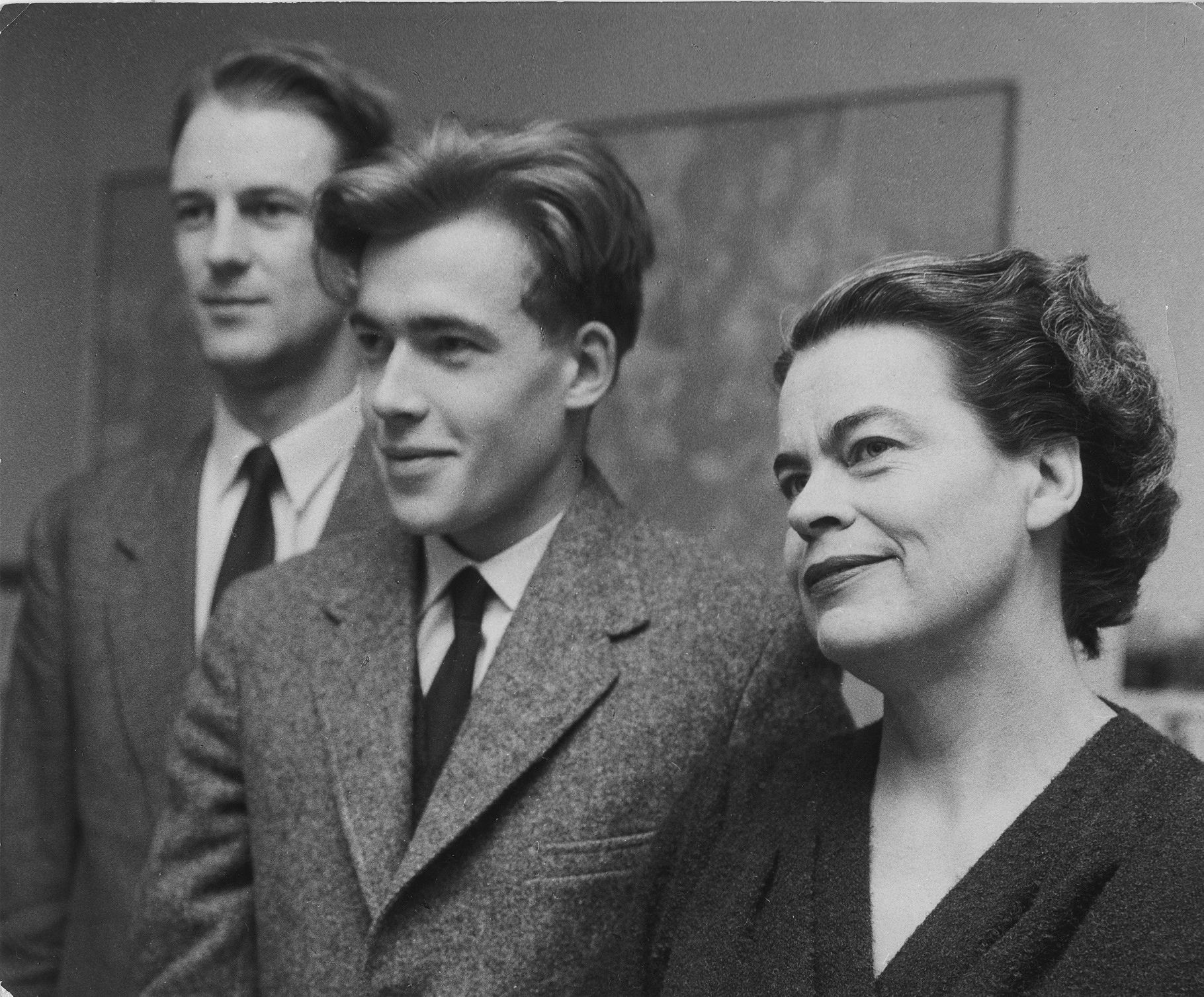 Photograph of Finnish book reviewers of Helsingin Sanomat: Timo Tiusanen (1936–1985), Pekka Tarkka (1934–) and Toini Havu (1908–1998).